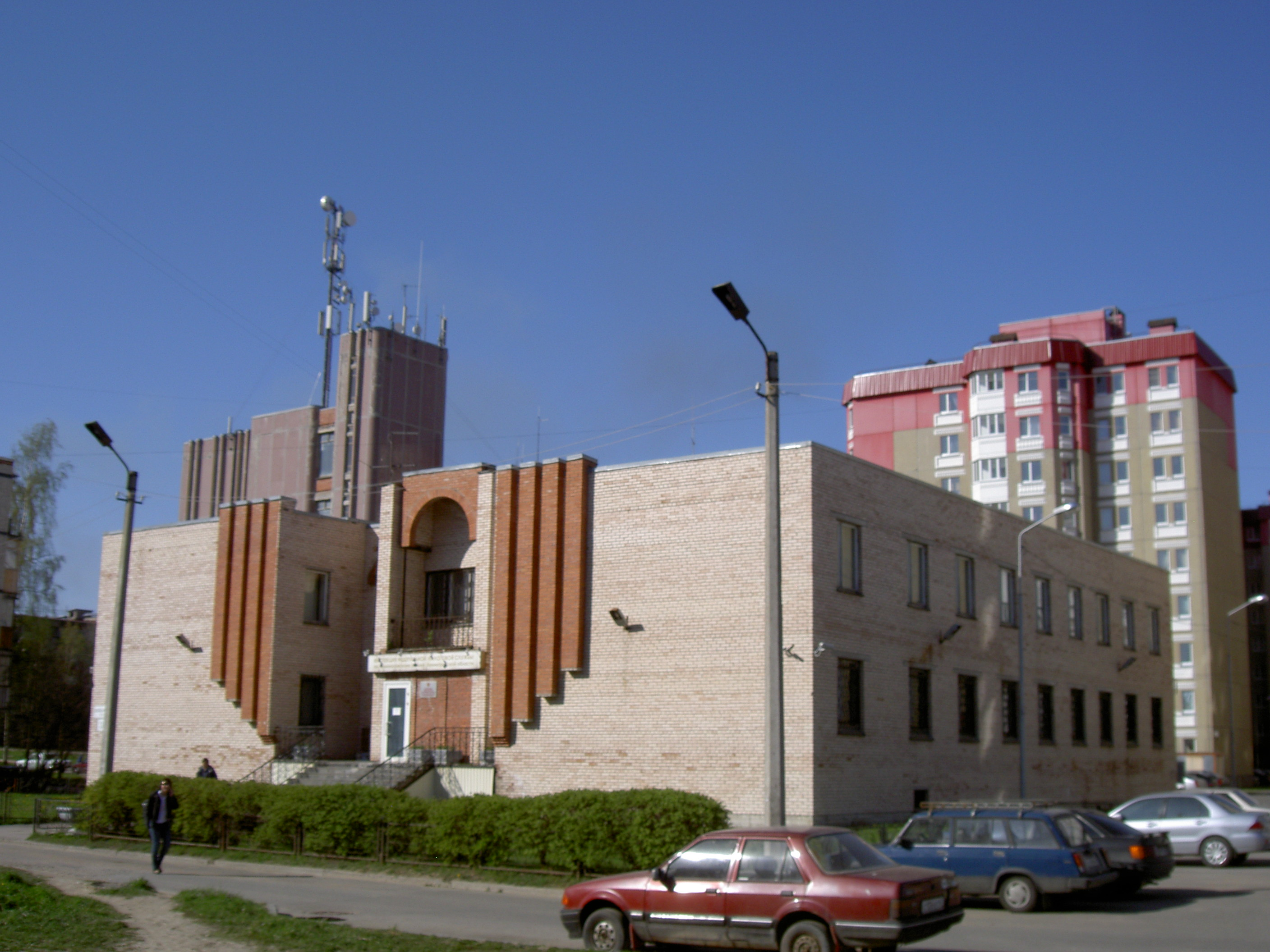 Shveytsarskaya street. Near Krasnogo Flota street